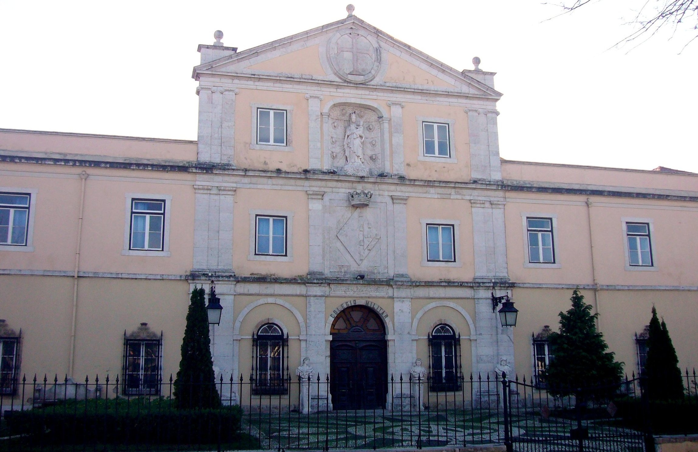 Colégio Militar is a military school in Lisbon,. It was founded by General António Teixeira Rebello during the Invasion of Portugal by Napoleon's Army